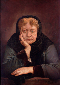 Painting of Helena P. Blavatsky made by notorious Costa Rican painter. Povedano dies in 1943 and all his works are already in public domain by Costa Rican law (75 years after the author's death) as of 2018.